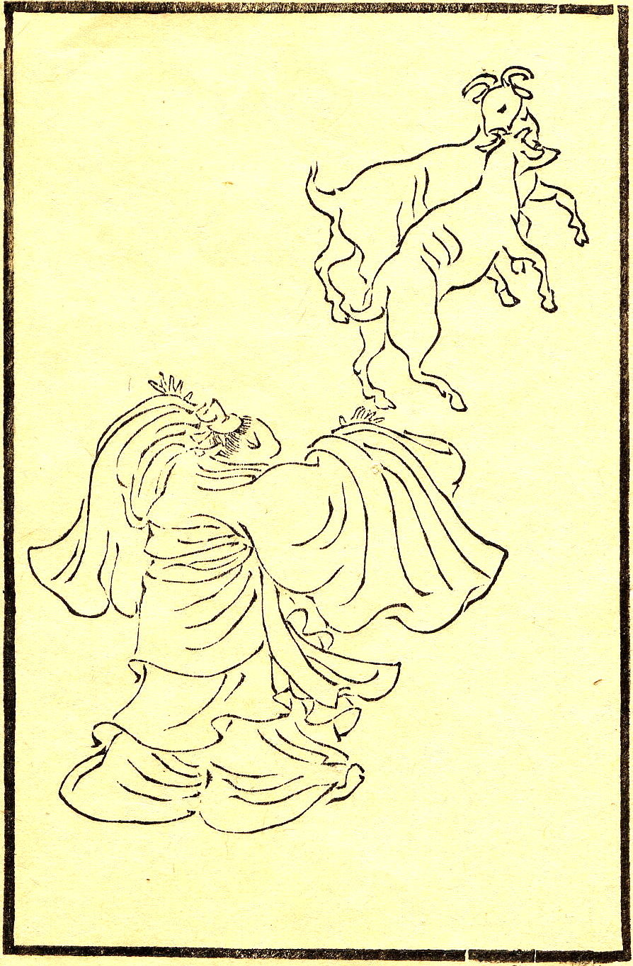 Wong Tai Sin (Chinese: 黃大仙) is a Chinese deity popular in Hong Kong with the power of healing. His name literally translates to the "Great Immortal Wong".